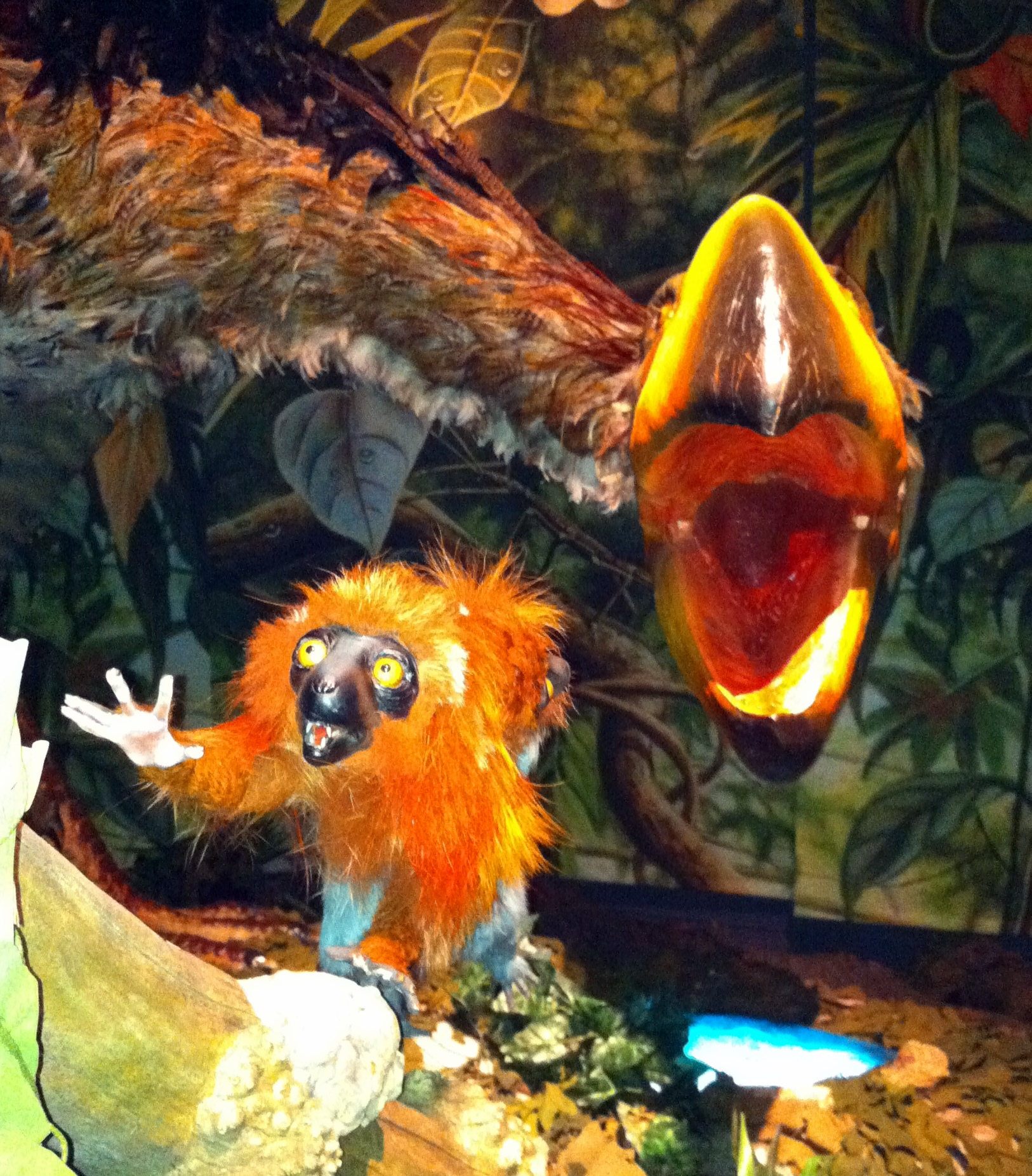 Exhibition at the Zoologisk museum, with Darwinius "Ida"